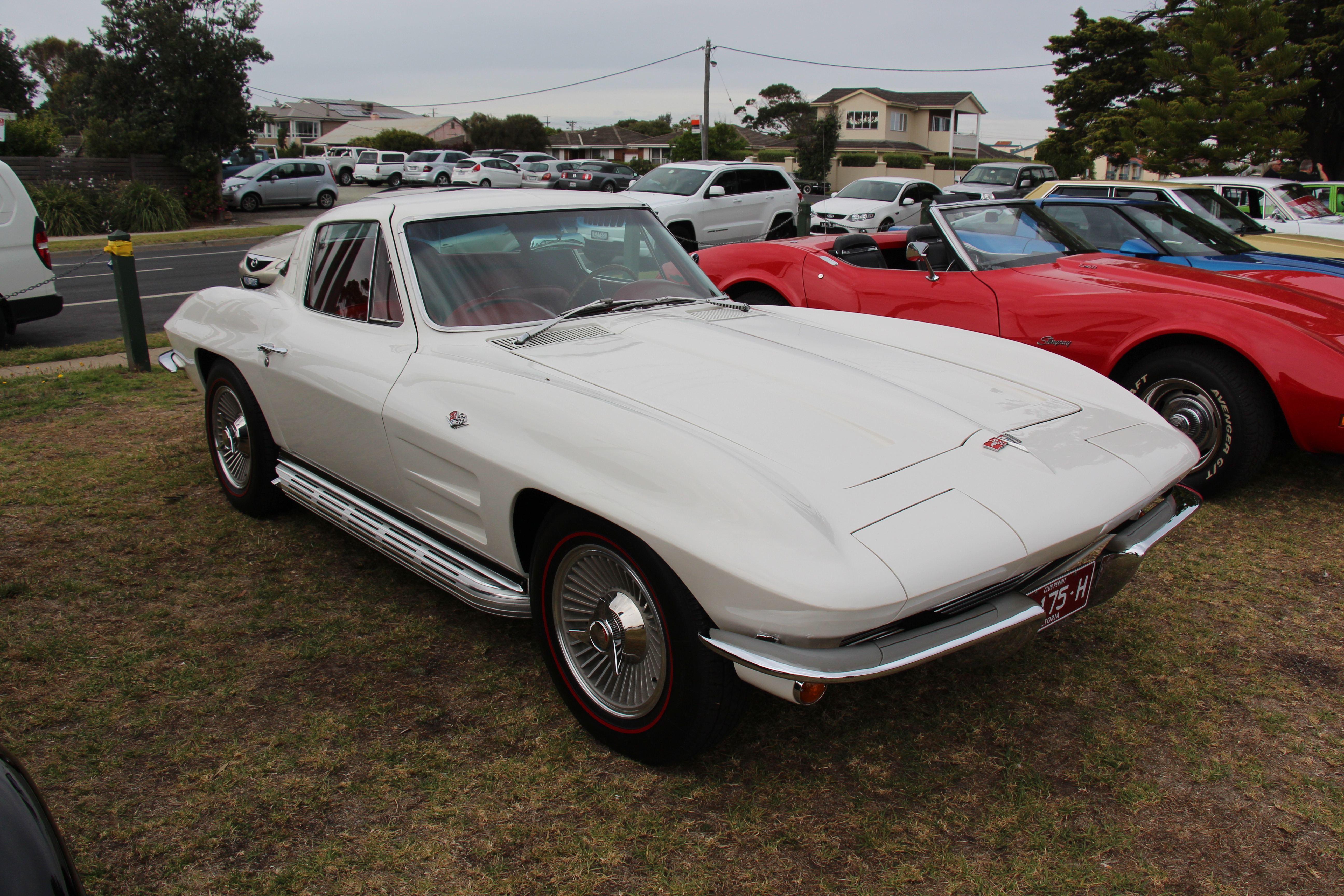 Ermine White. The 2nd generation Corvette, the C2, was built from 1963-67, a new name was introduced, the Sting Ray, and not only available as a roadster like the 1st generation but a coupe as well. They featured a tapering rear deck and hideaway headlights. Unique to 1963 was a split rear window and decorative hood vents. For 64, a full width rear window and the hood vents were gone. 1965 saw 4 wheel disc brakes and 396 big block option (base was 327), it got 3 vertical fender vents replacing the 2 horizontal ones. For 66 even larger 427 cu in option, an eggcrate grille was new replacing the horizontal bars. 1967 got restyled taillights and now 5 vertical fender vents.